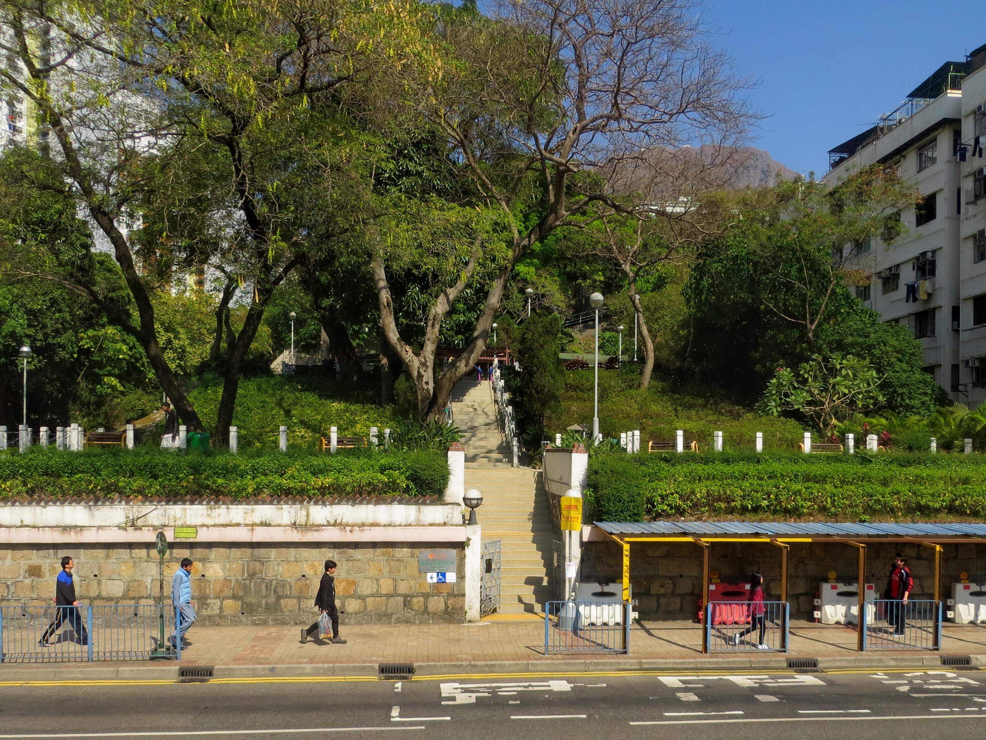 Kwun Tong Road Children's Playground, Kowloon, Hong Kong.